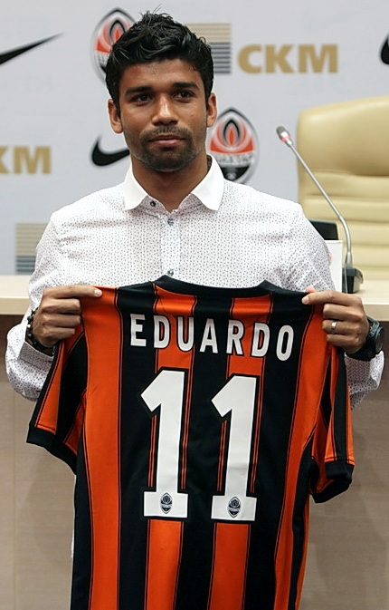 Eduardo da Silva